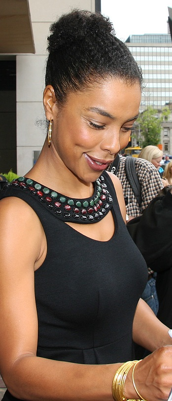 Sophie Okonedo at the 2008 Toronto International Film Festival